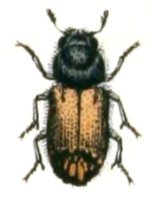 Sinoxylon perforans, from Calwer's Käferbuch, Table 29, Picture 15. Taxonomy was updated to 2008, using mostly the sites Fauna Europaea and BioLib. Please contact Sarefo if the determination is wrong!